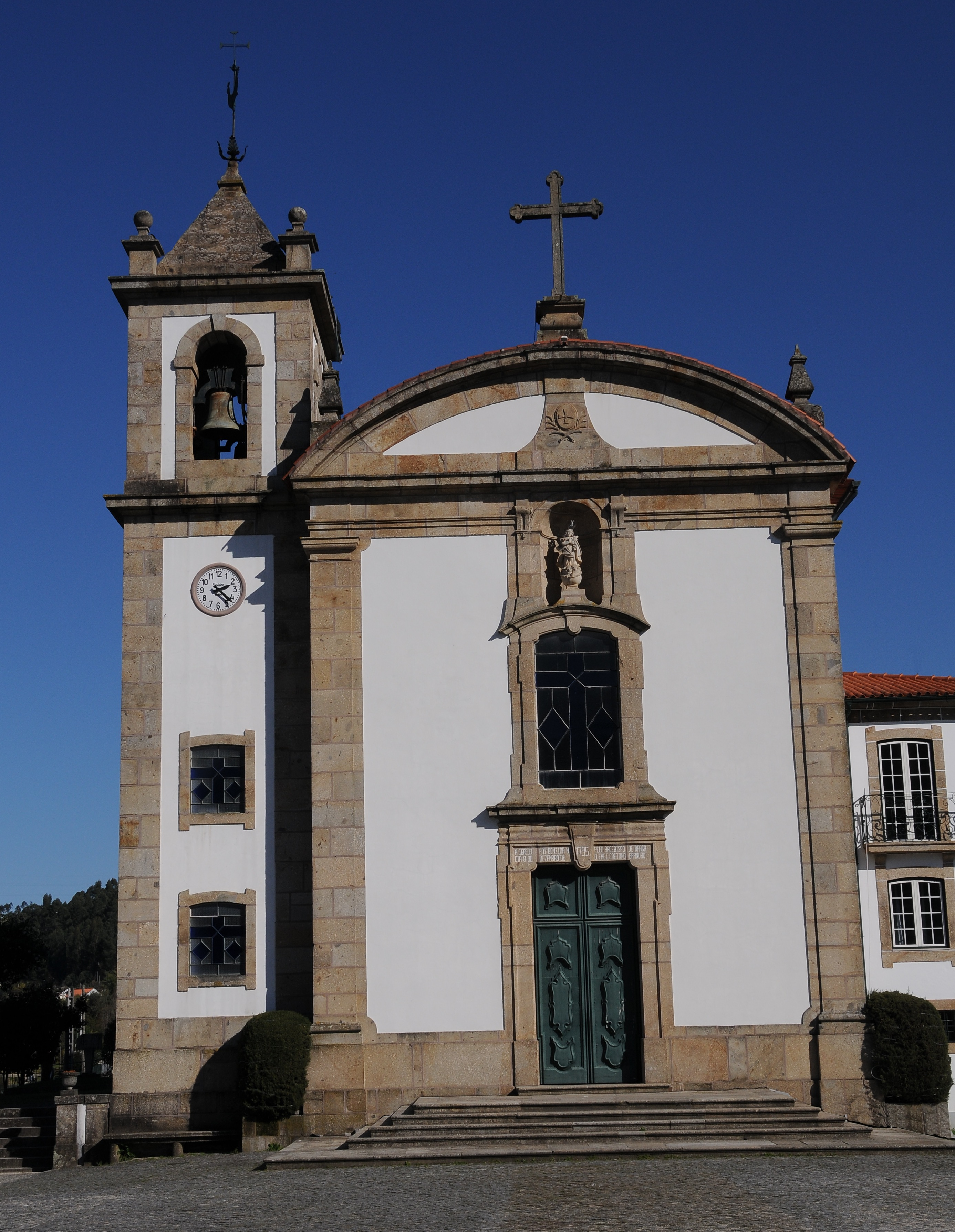 Adaufe Church in Braga, Portugal